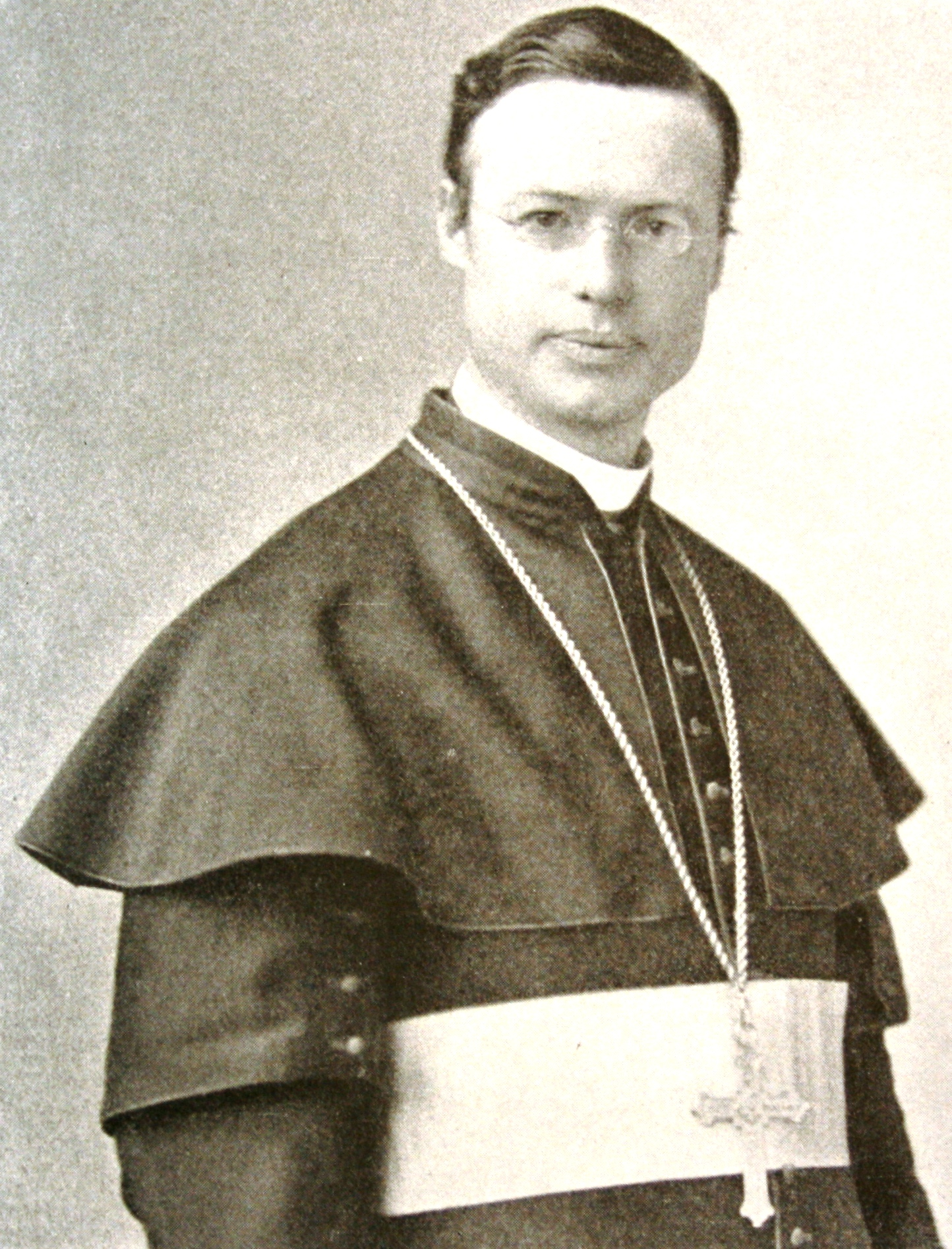 Michael Corrigan (1839-1902)